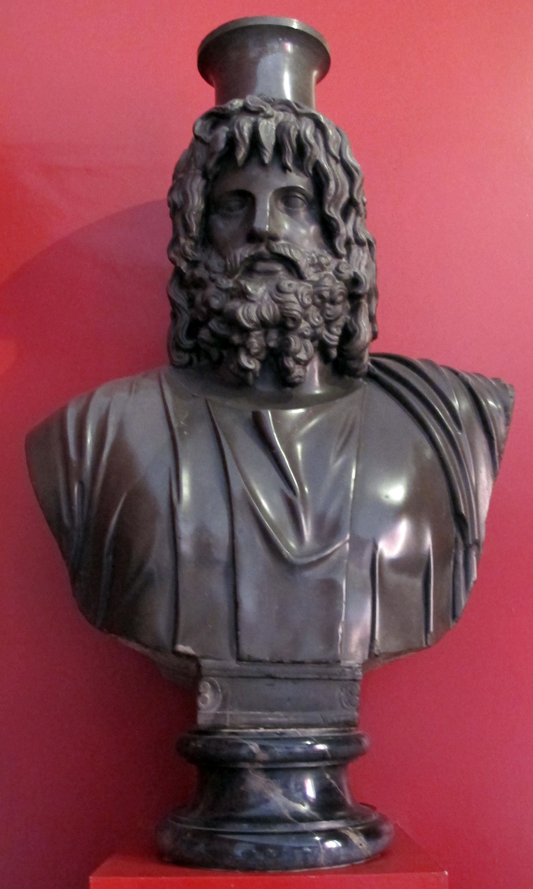 Bust of Serapis, Roma, s. II. inv. 689. Museo Gregoriano Egizio. Vatican Museums